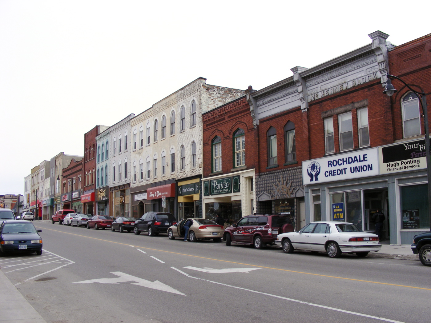 Thames Street in downtown Ingersoll, Ontario. Date: March 21, 2008 Source: Photo by me, User:Balcer.